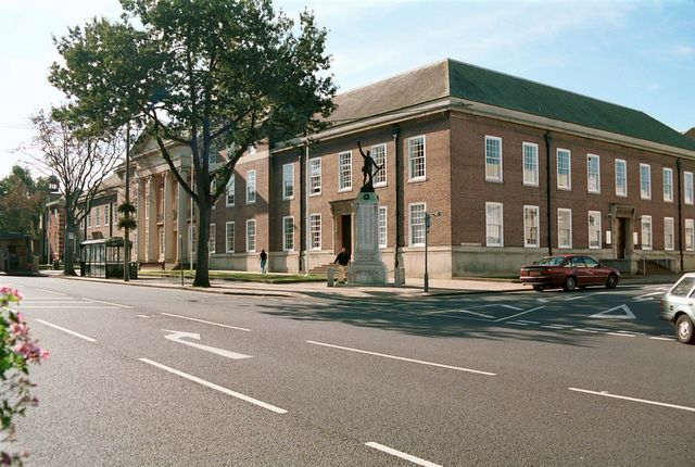 Worthing Town Hall (with the war memorial).